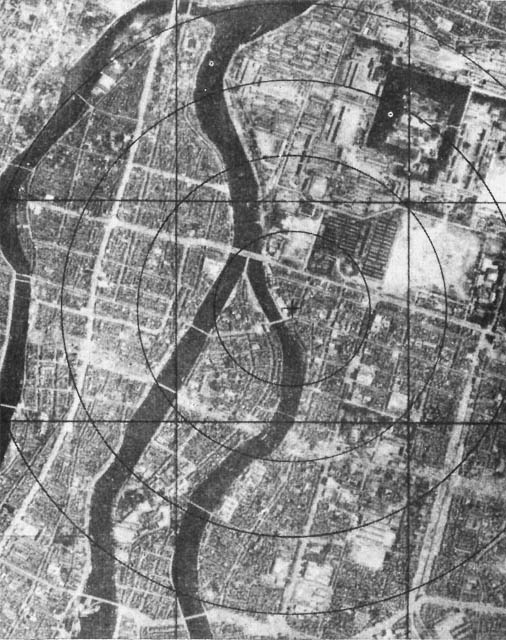 Hiroshima before bombing. Area around ground zero. 1,000 foot circles.